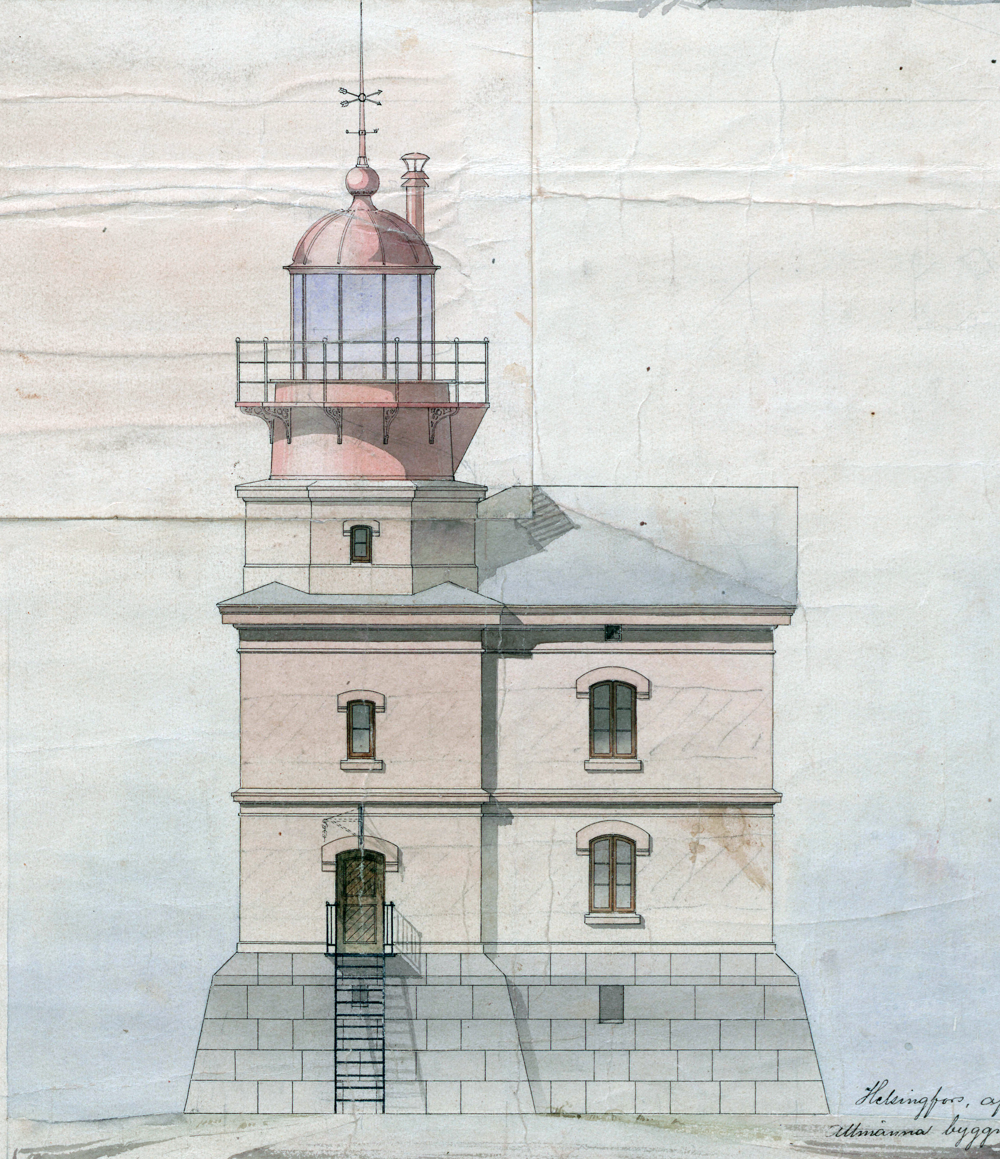 Records creator: Rakennushallitus, \nArchive/Fond: Rakennushallituksen piirustukset II (kokoelma), \nSeries: Luotsiasemat, majakat, radiosondit, merimerkit, sillat, laiturit ja satamalaitokset, \nUnit: RakH II Ihb. 69:/- - 1-10. [Märket, majakka]., \nInclusive dates: 0 - 0\n